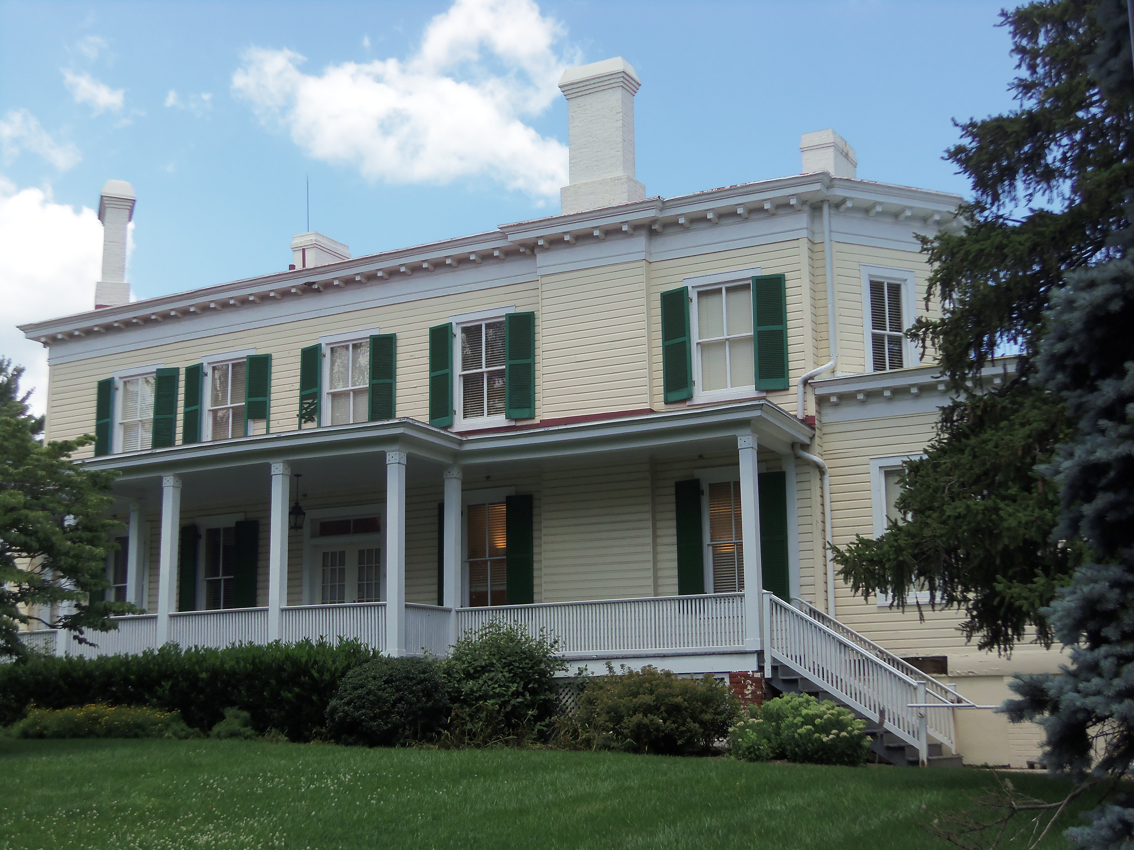 The Riggs-Thomson House was a private home built by Joseph and Octabia Bryan in Silver Spring, Maryland. It was also the property of George Washington Riggs and the Thompson family from which it receives its name. In 1933 the Sisters of the Holy Names purchased the land and the house was used as St. Michael's Elementary School until 1936. At that time it became the Academy of the Holy Names, a Catholic girls high school. It was operated by the sisters from 1936-1988. After which it became the Chelsea School from 1988 - 2012. The property is being redeveloped for townhouses as of 2013. It is listed in the Maryland Inventory of Historic Properties.